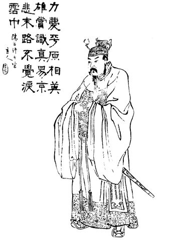 Qing Dynasty Romance of the Three Kingdoms illustration of Gongsun Zan